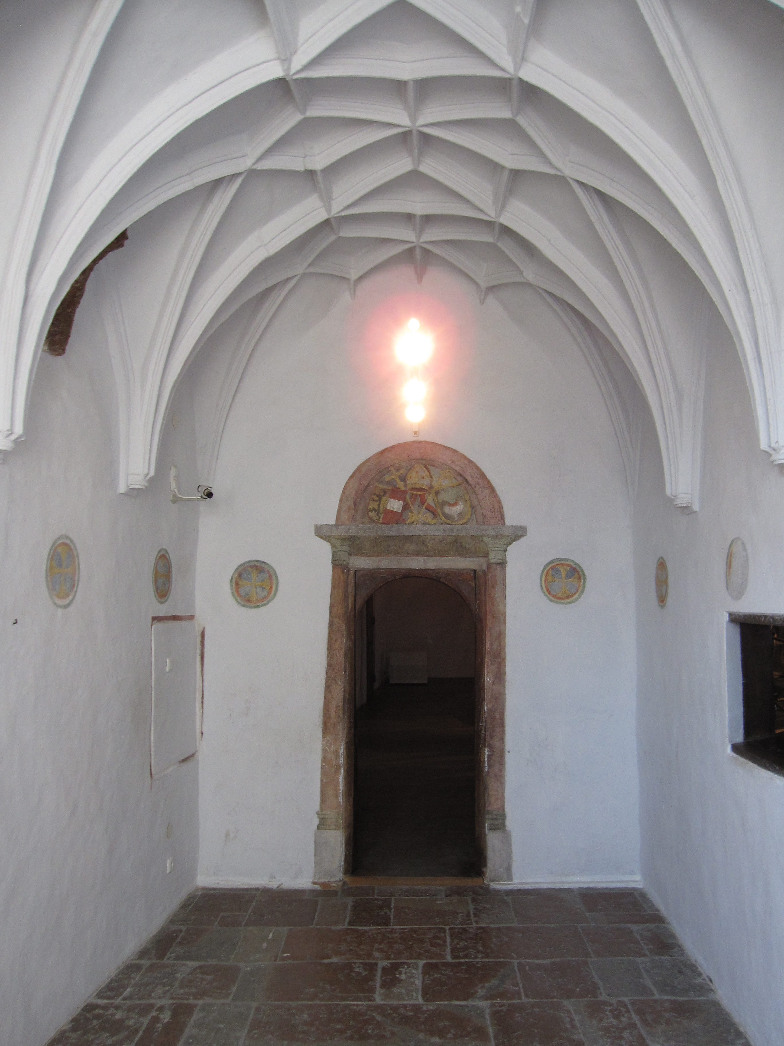 Chapel of archbishop Leonhard von Keutschach in Hohensalzburg Castle.